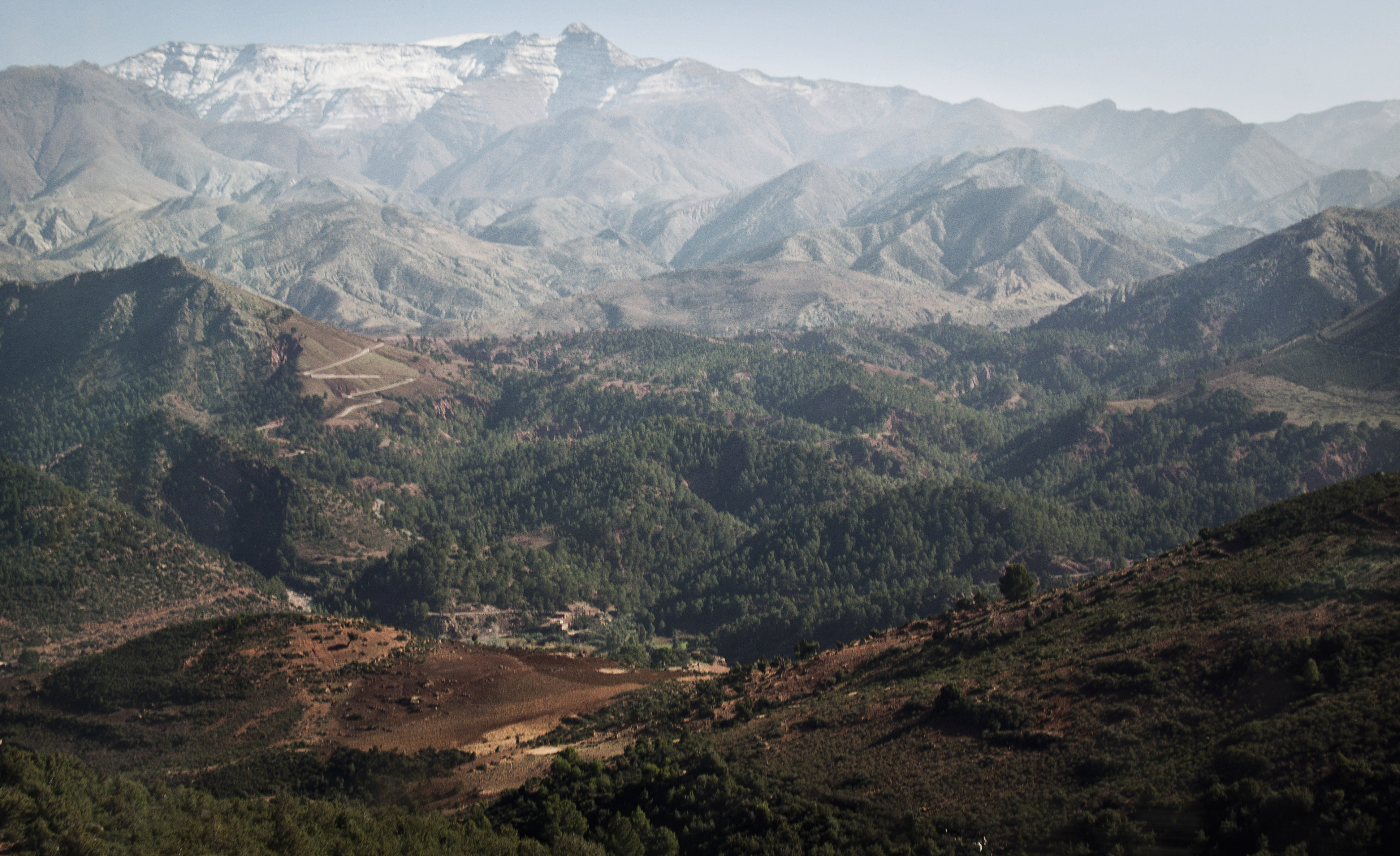 Atlas